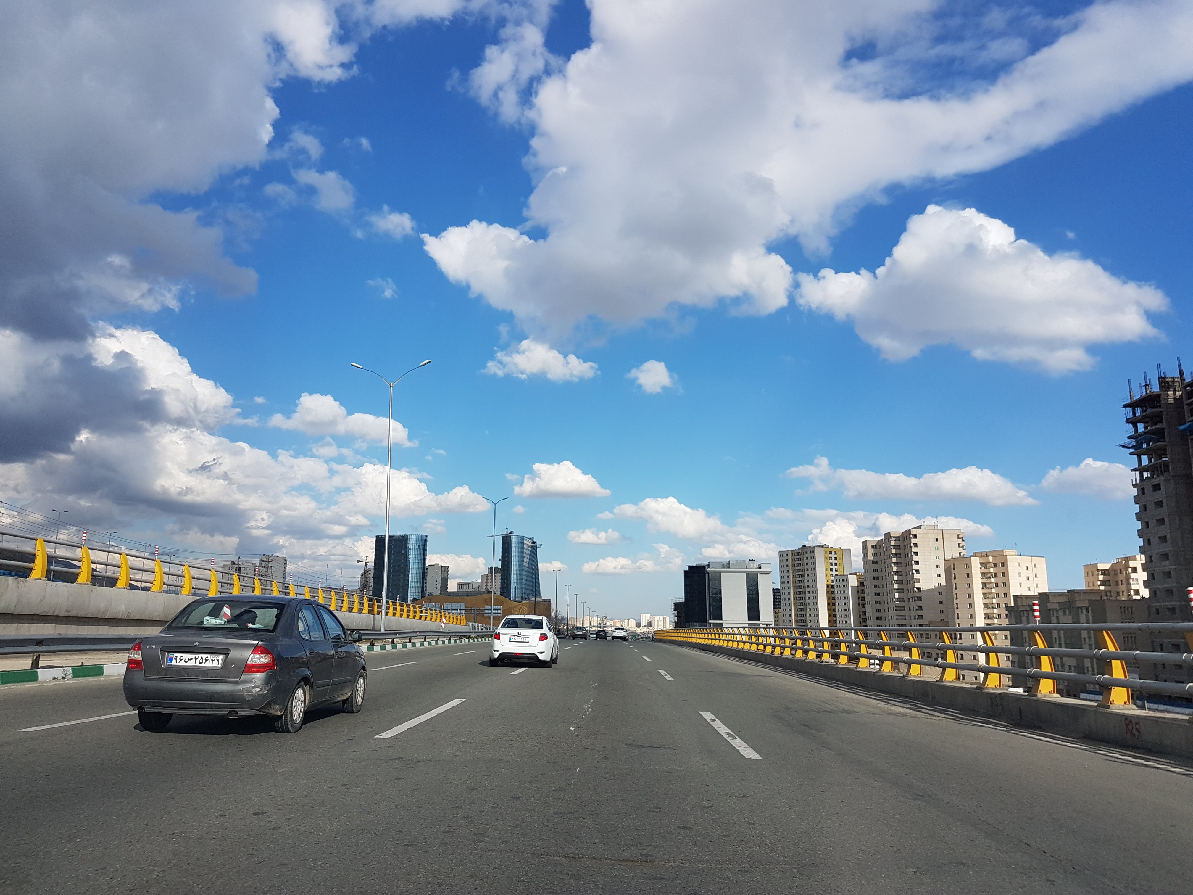 Kharrazi Highway